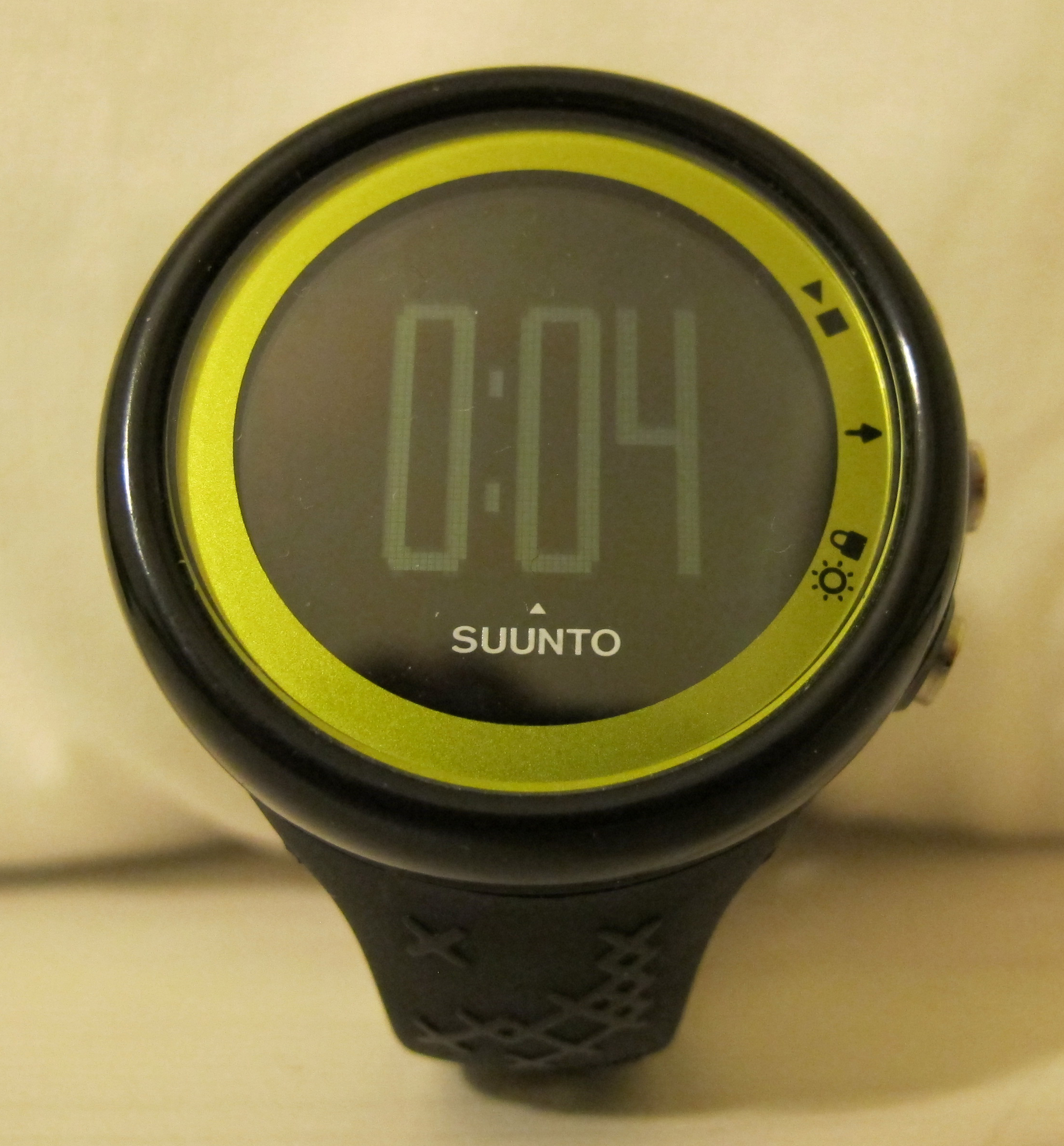 Suunto M5 Black/Gold